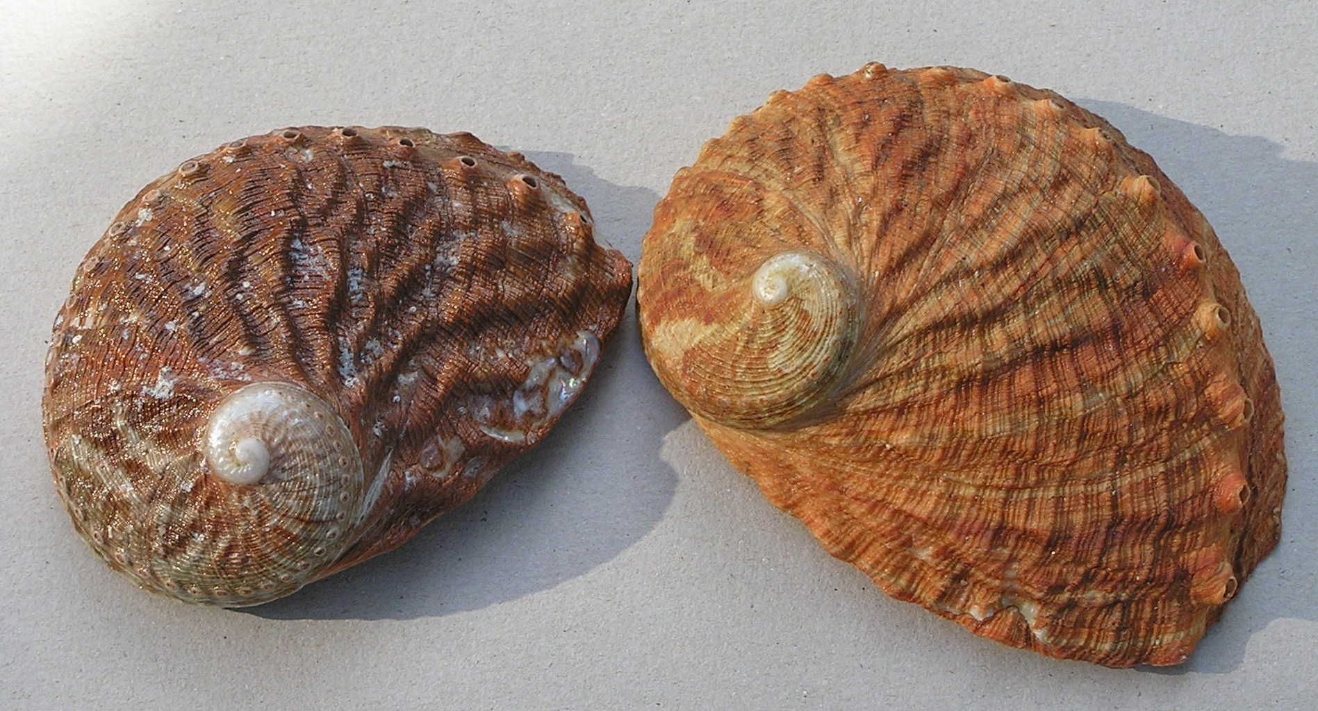 Haliotis rubra Leach, 1814; family Haliotis; South Australia